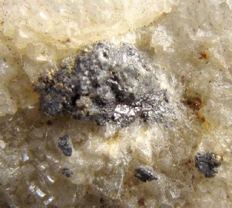 Coloradoite, Pyrite, Quartz Locality: Bessie G Mine, La Plata District (California District), La Plata County, Colorado, USA (Locality at ) Size: 10.1 x 4.7 x 2.8 cm Coloradoite is a rare mercury telluride named for the type localities which are in Colorado. It is found in hydrothermal, tellurium bearing precious metal veins. Crystals and platelets of grayish-black coloradoite, accented with brassy, microcrystalline pyrite richly cover the sculptural vein matrix of quartz. Very seldom will you see a coloradoite specimen in cabinet size quality and richness.